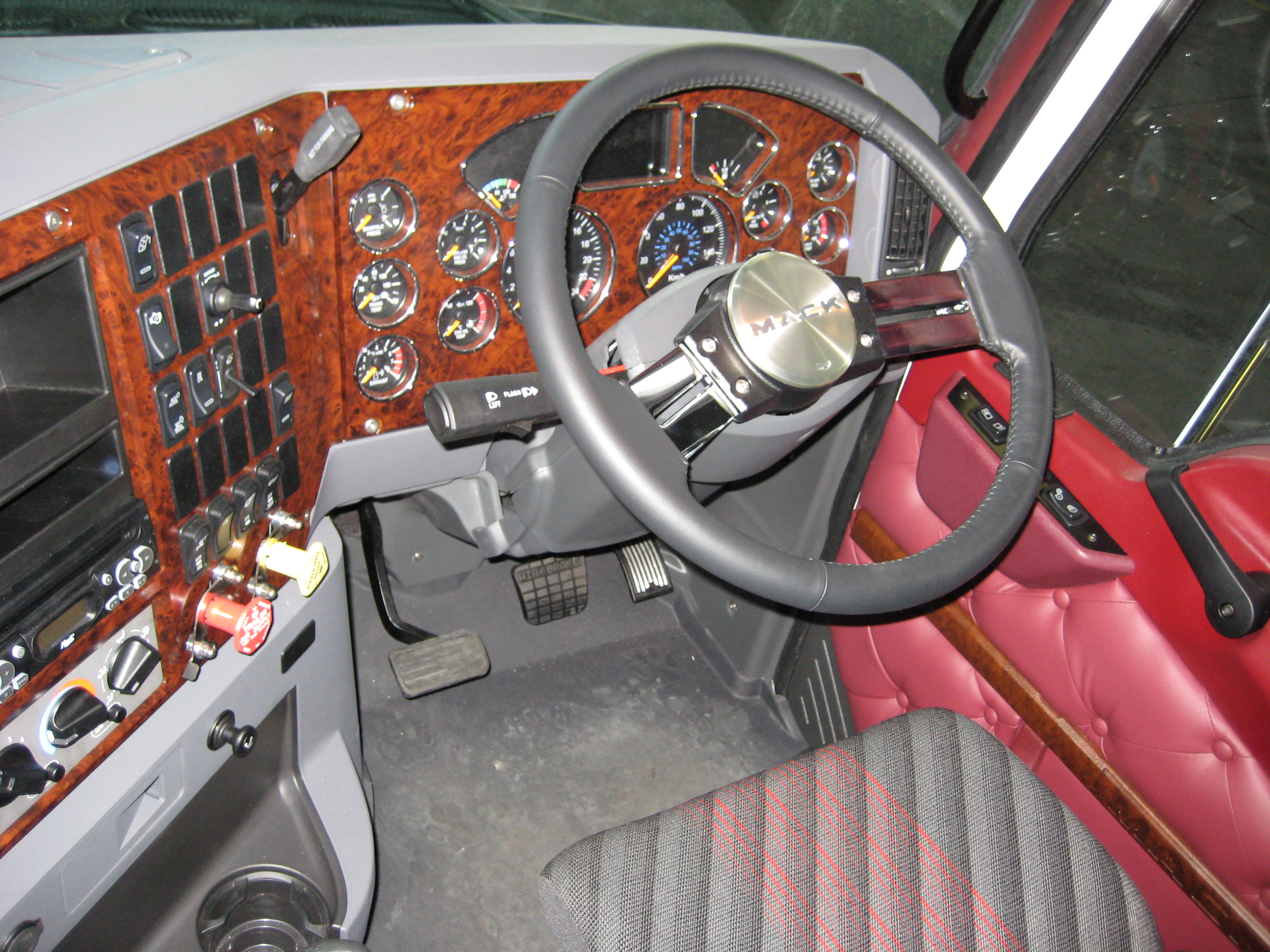 Inside Mack Granite 2008 Australian model